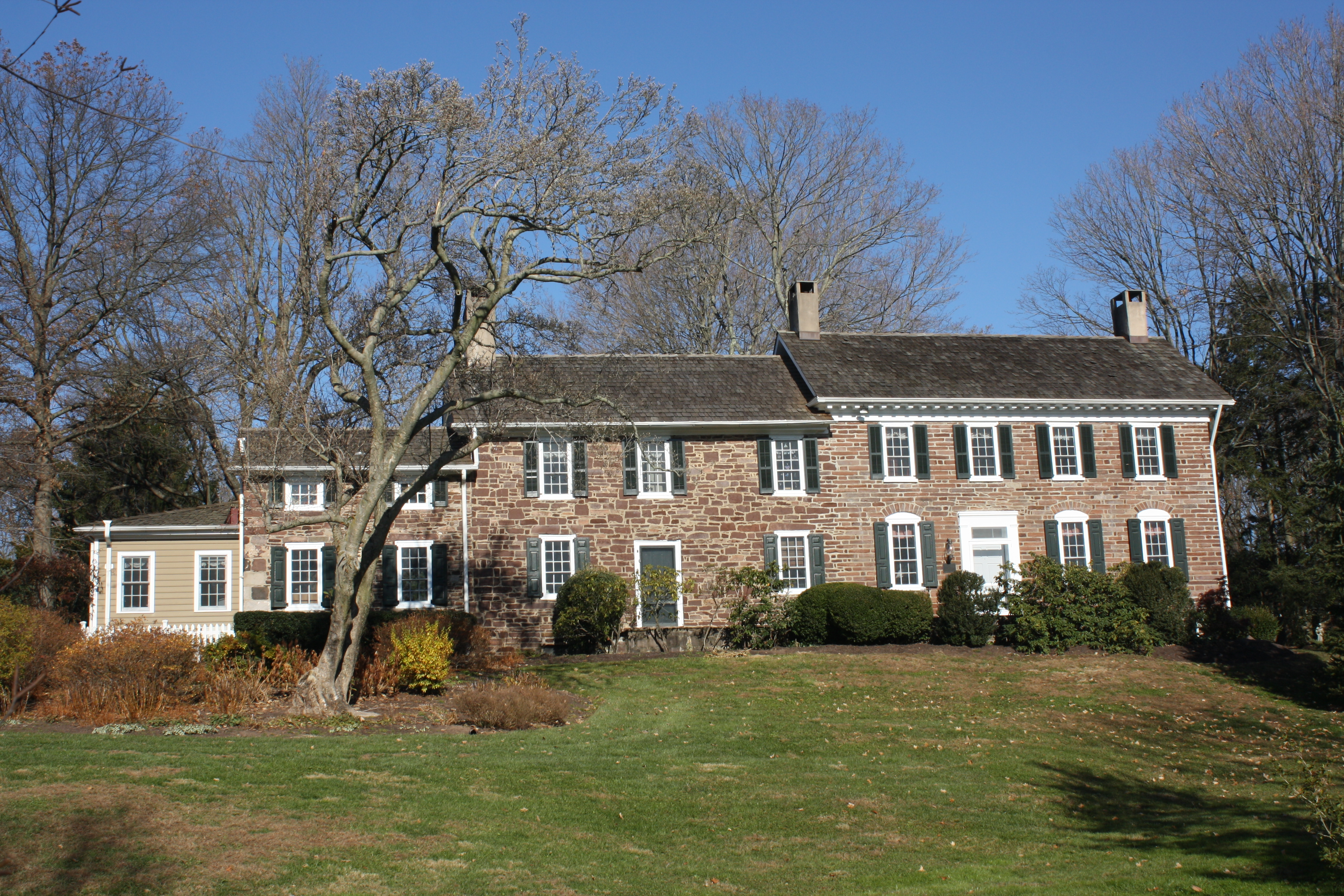 John Burroughs Homestead, also known as Shady Hill and the Lieutenant Colonel James Hendricks Headquarters, is a historic home located at Taylorsville, Upper Makefield Township, Bucks County, Pennsylvania. Object location40° 17′ 04″ N, 74° 54′ 02″ W